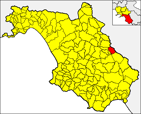 Locator map of the municipality of Atena Lucana (red) within the Province of Salerno